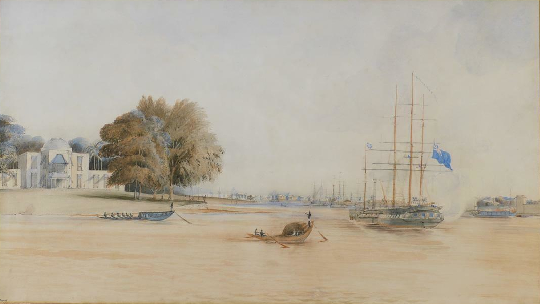 Garden Reach, Calcutta, HMS Calliope saluting 1841, by Francis Meynell R.N. Calliope is being towed by a naval paddle wheel tugboat Meynell entered the navy as midshipman during the campaign in China, on board the Calliope. He was mentioned for the assistance rendered at the capture on 13 March 1841 of the last fort protecting the approaches of the city of Canton (Guangzhou).